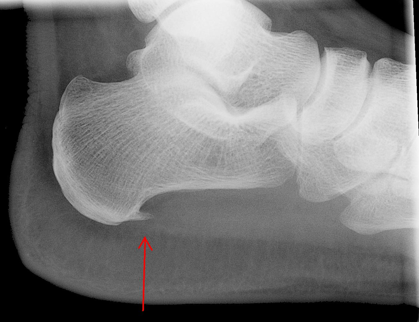 A calcaneal spur, which has some association with plantar fasciitis. Plantar fasciitis is the most common cause of heel pain. It is the inflammation caused by excessive stretching of the plantar fascia, the broad band of fibrous tissue which runs along the bottom surface of the foot, attaching at the bottom of the heel bone and extending to the forefoot. When the plantar fascia is excessively stretched, this can cause Plantar Fasciitis, which can also lead to foot problems such as heel pain, arch pain, and heel spurs.